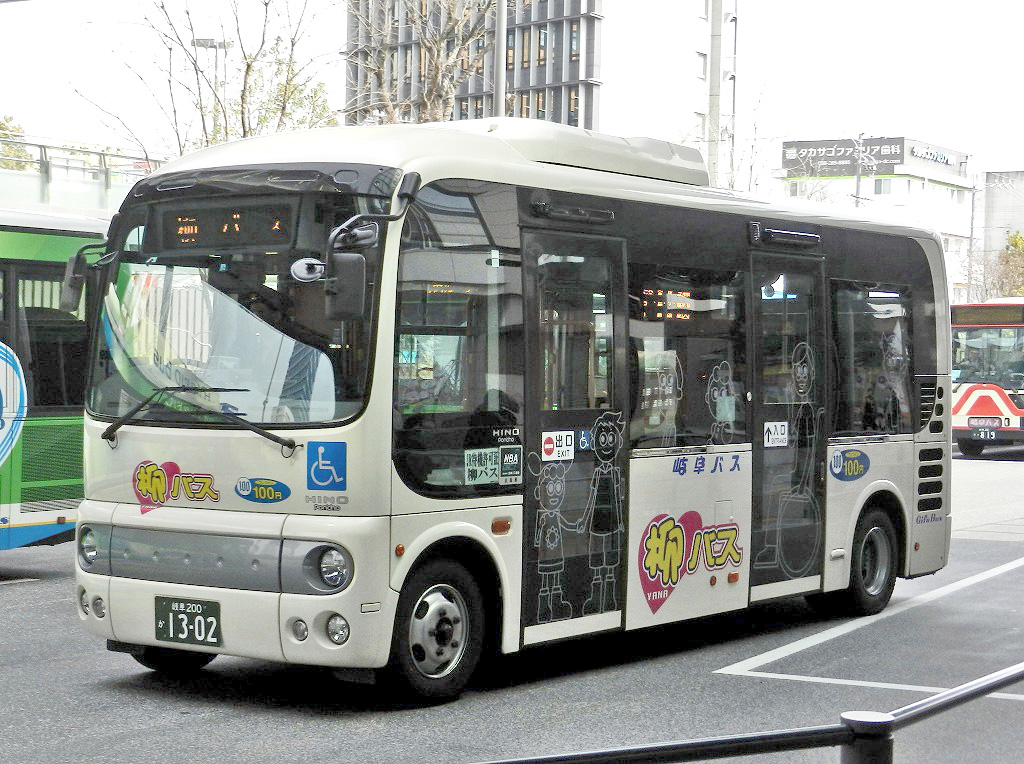 Gifu bus Hino Poncho (BDG-HX6JLAE) for Gifu city community bus "Yana-bus"